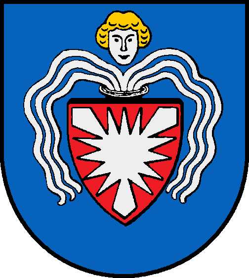 Coat of arms of the municipality Bornhöved in Schleswig-Holstein, Germany.